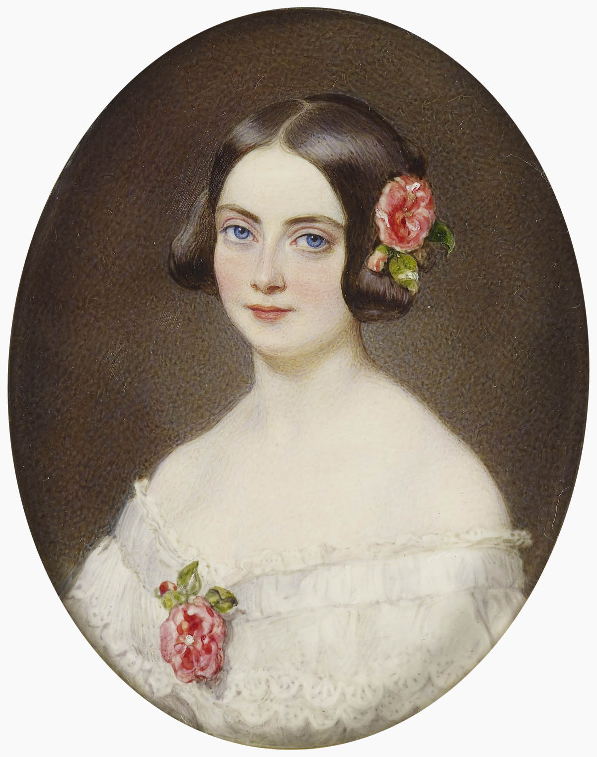 Watercolour on ivory laid on card of Frances Jocelyn, Viscountess Jocelyn